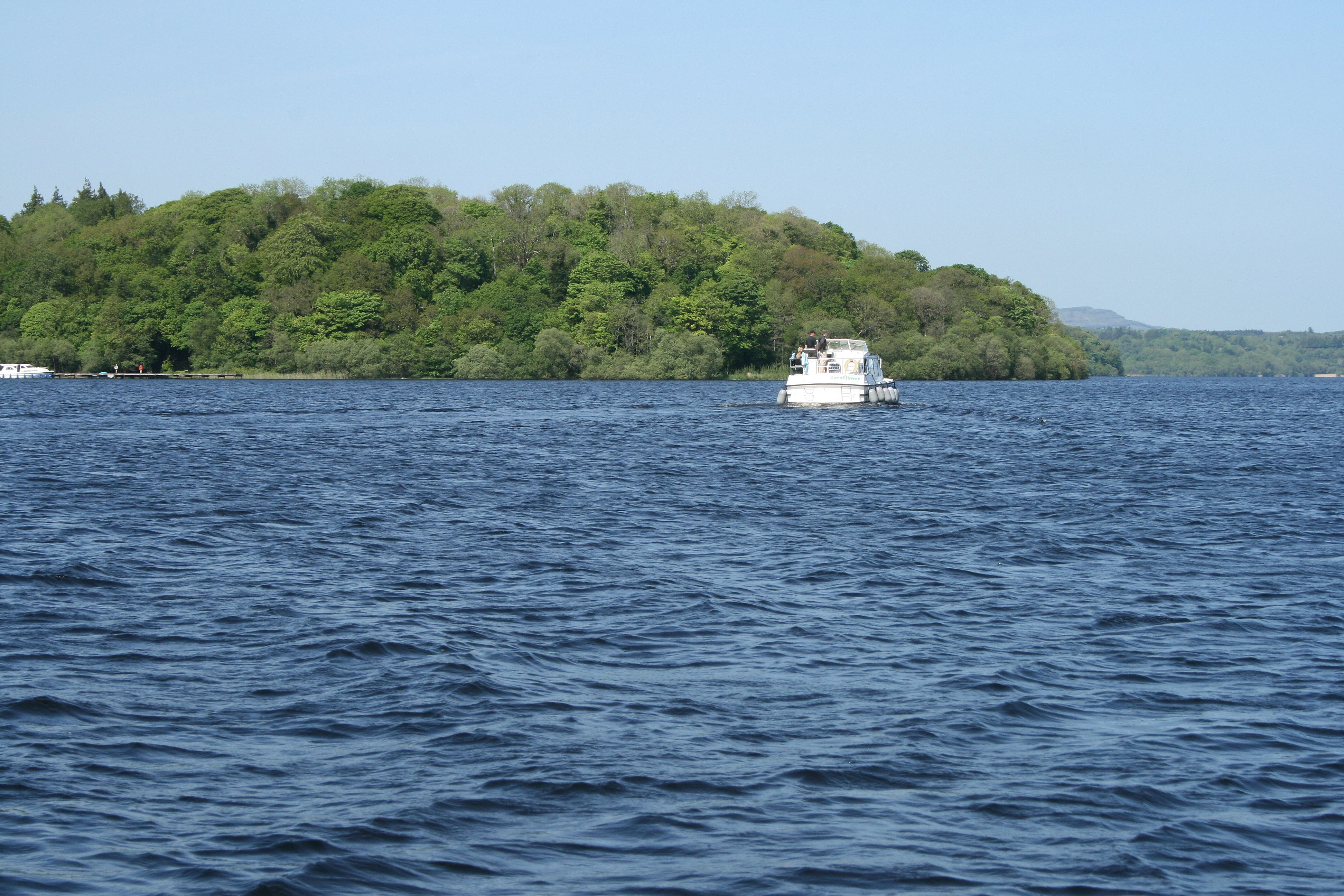 Lough Key, County Roscommmon, Ireland.